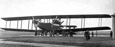 Handley Page V/1500 heavy bomber, developed in 1918 for the strategic bombing of Germany, but whose use was curtailed by the end of World War I.